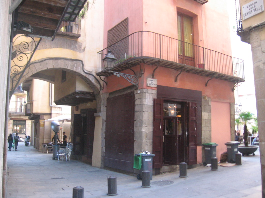 Caputxes street, back to the curve building in the 7 of Santa Maria square. Those visible rests of an antique arch, remaining over the moedieval arch, could be the corridor's vault under the rows of seats.